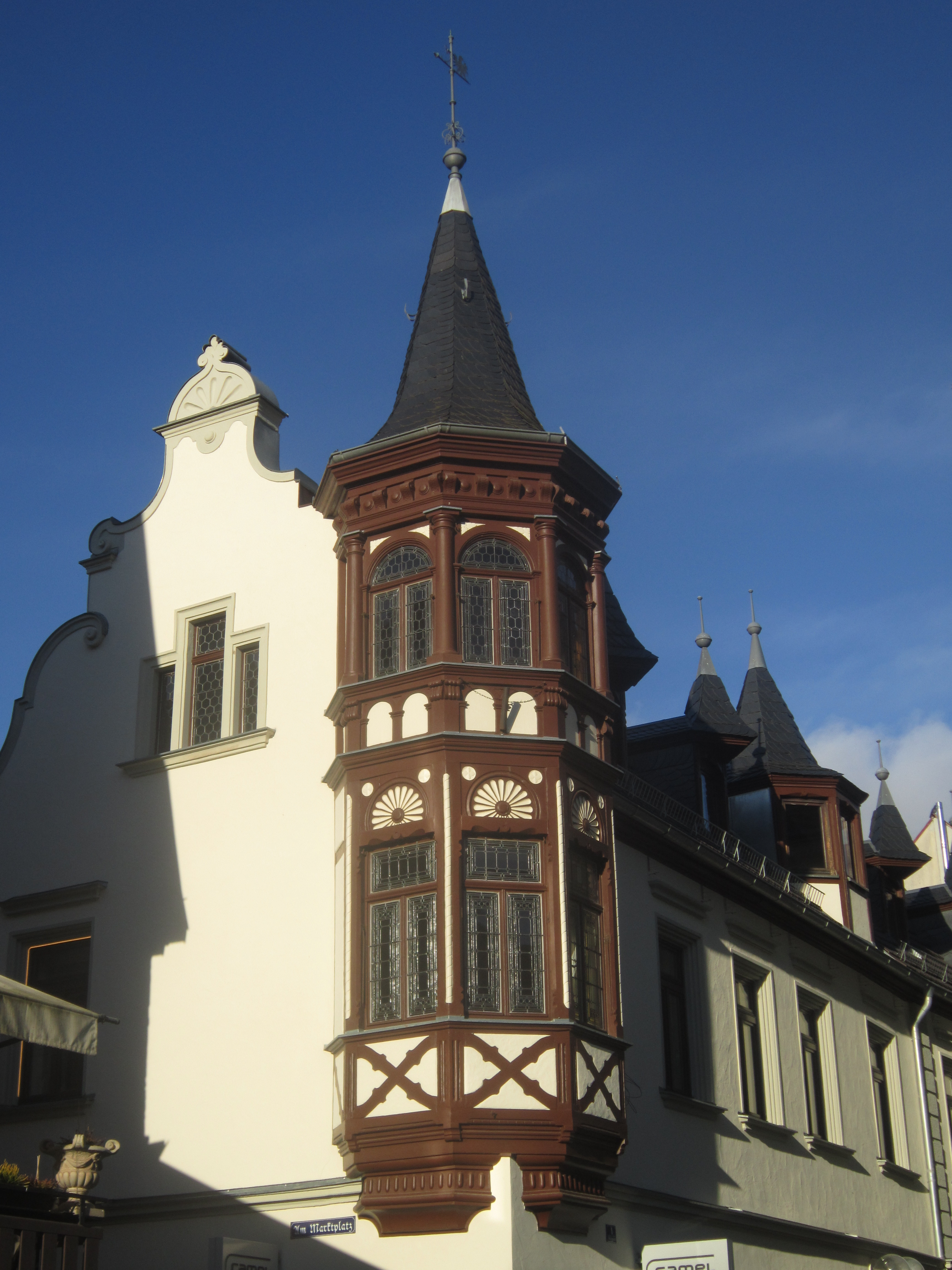 Baywindow of a building in the German spa town of Bad Kissingen in Lower Franconia (Bavaria) (Address: Weingasse 01).